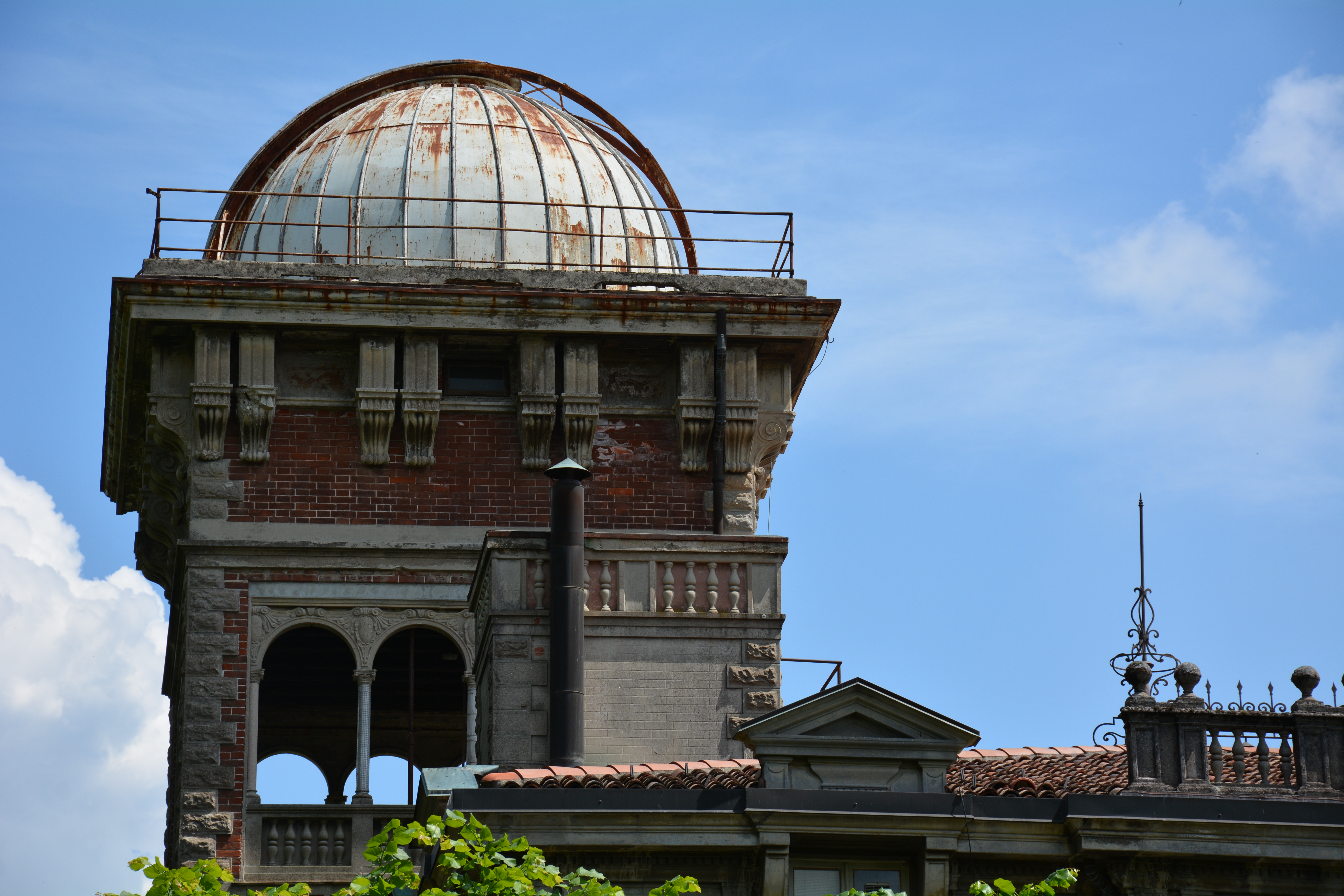 Specola tower